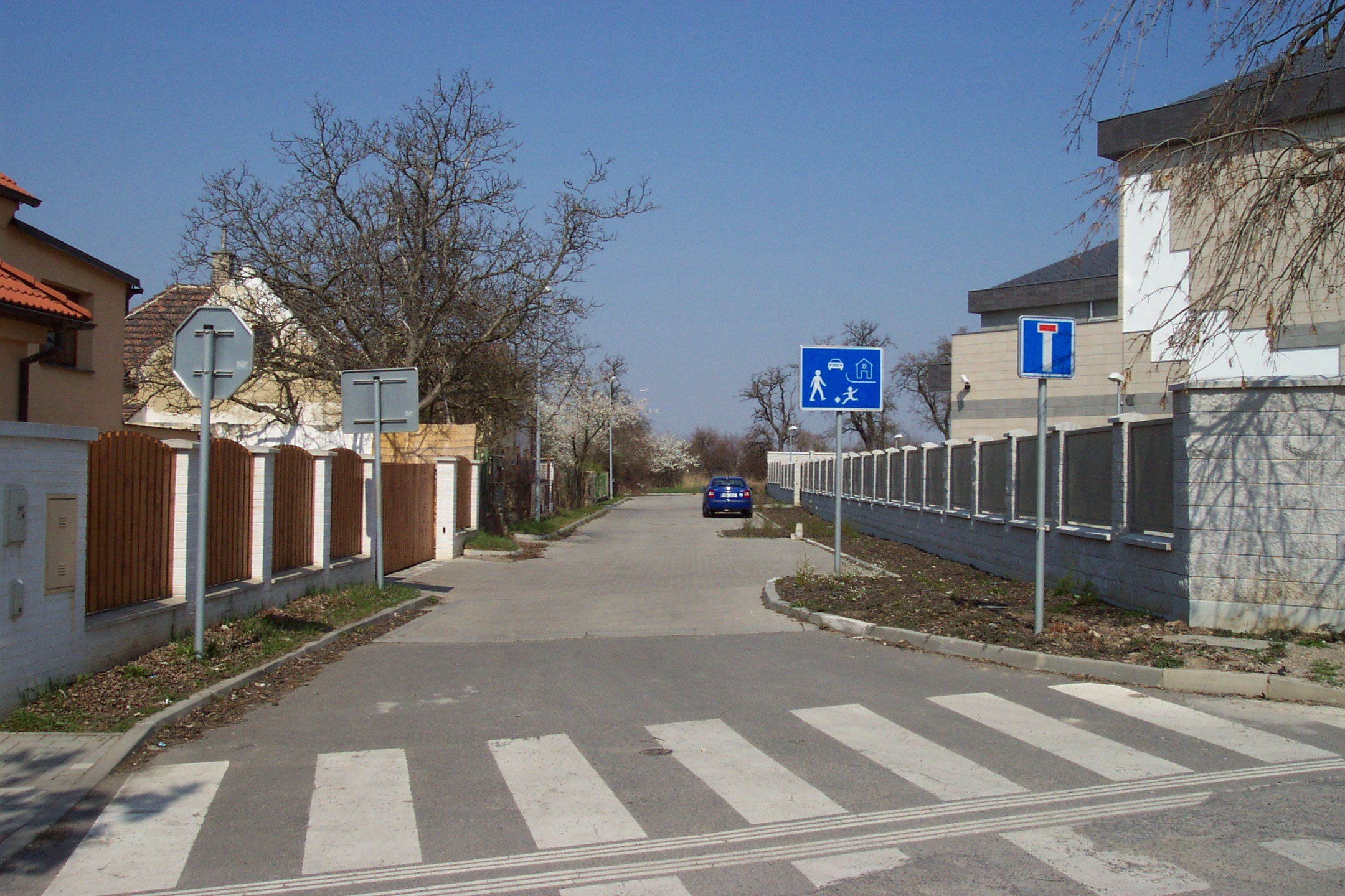 Zličín street